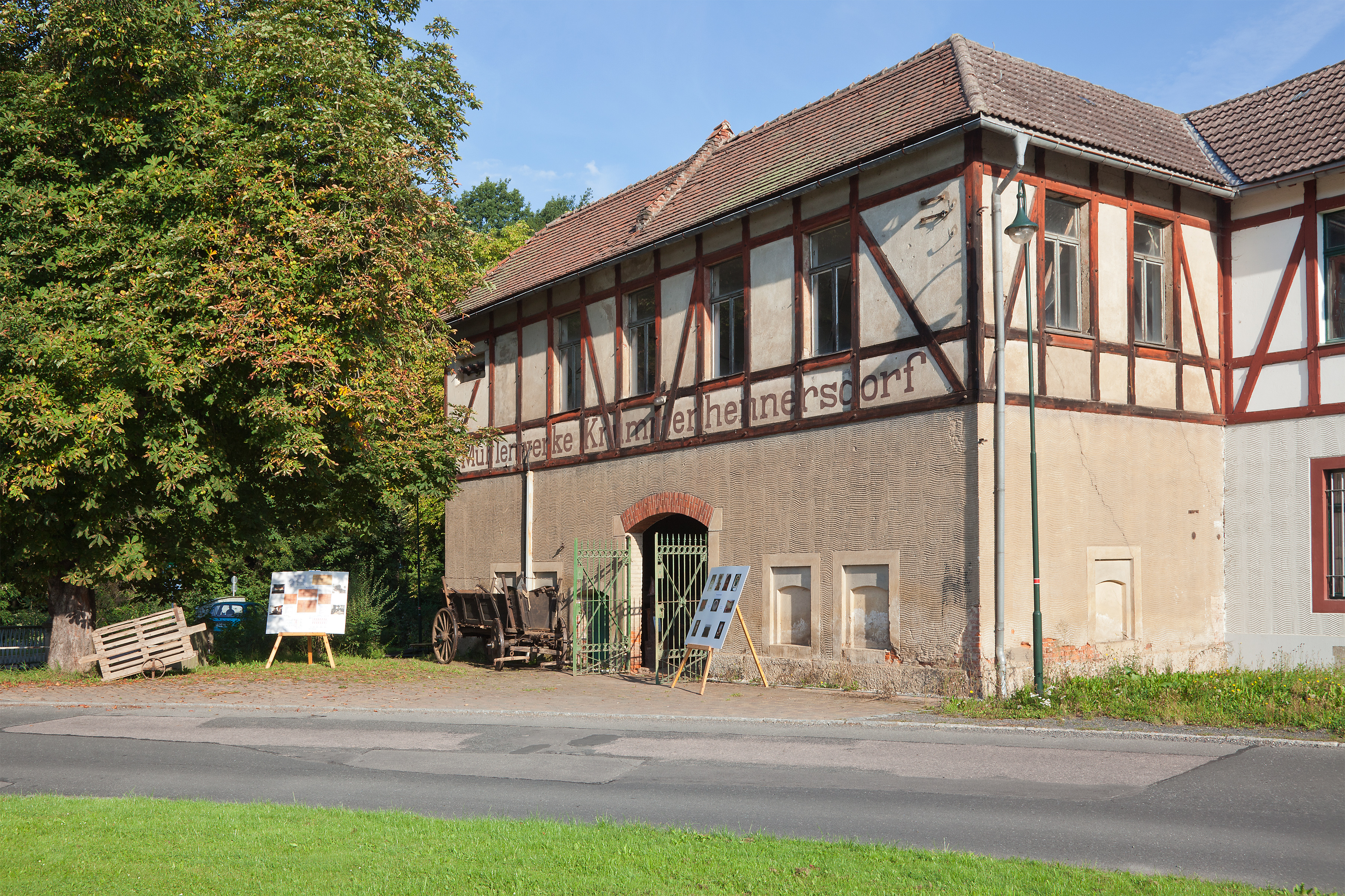 Krummenhennersdorf, Saxony, mill